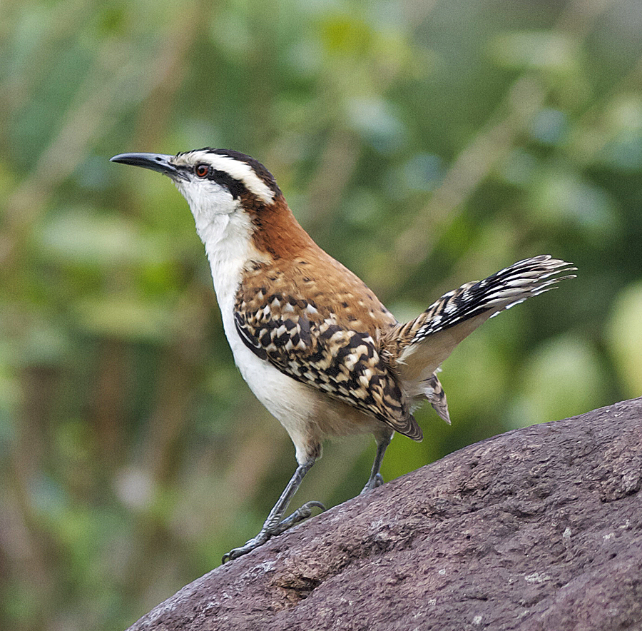 Rufous-naped Wren photo taken at Santo Domingo, Costa Rica.